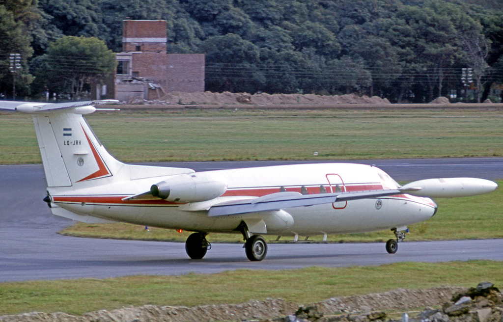 HFB-320 Hansa Jet LQ-JRH of YPF at Buenos Aires Aeroparque in 1972